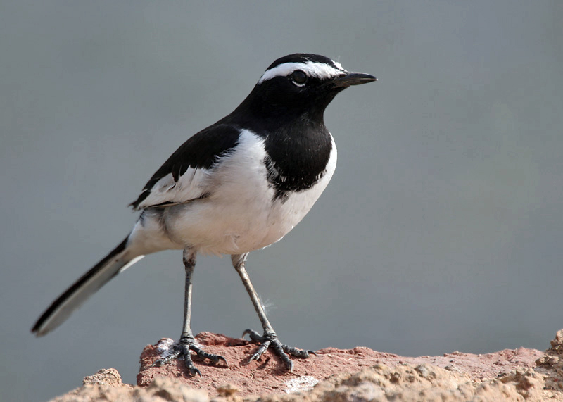 White-browed Wagtail Motacilla maderaspatensis in Bhopal, Madhya Pradesh, India